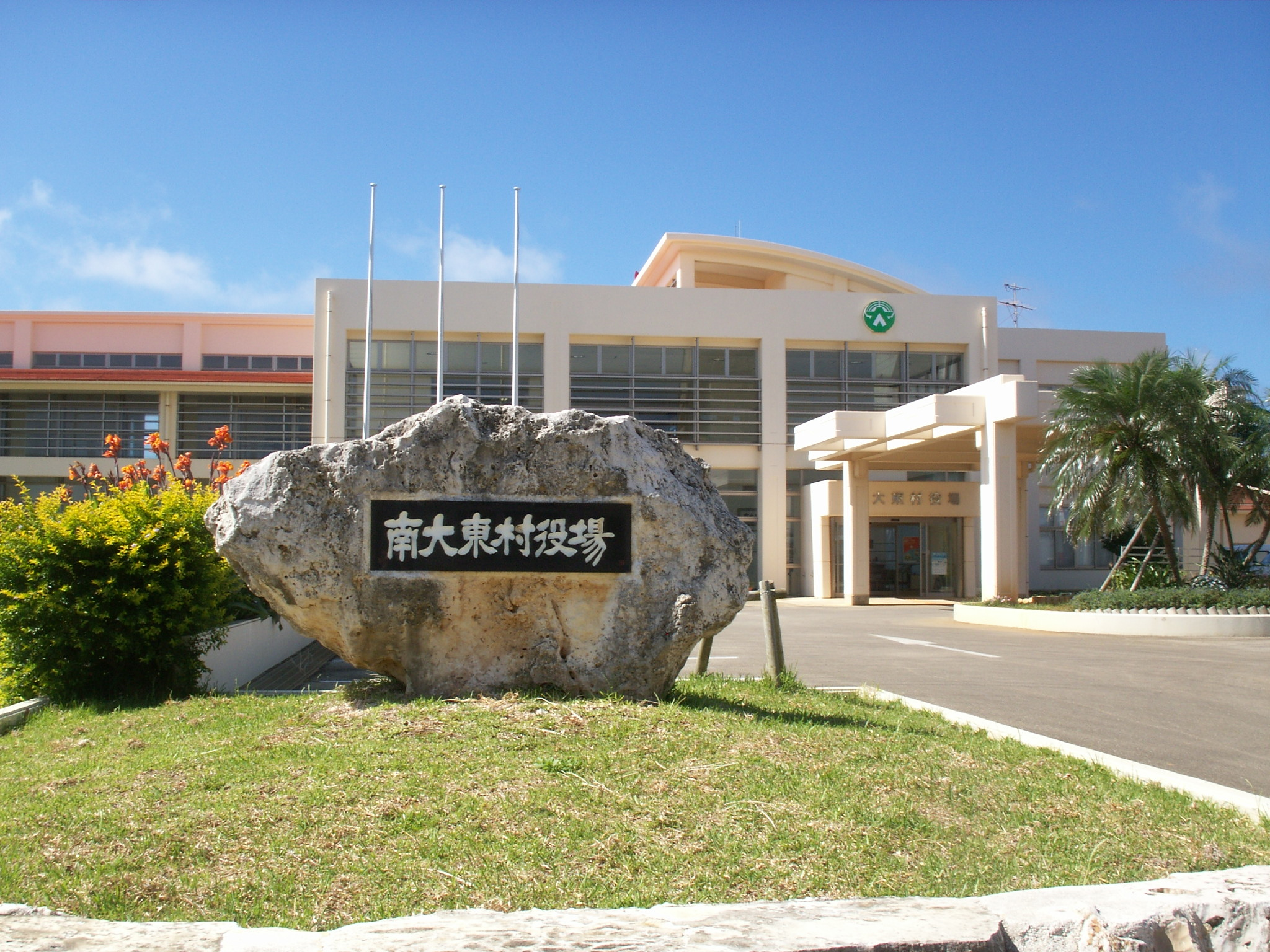 Minamidaito Village Office in Okinawa Prefecture, Japan